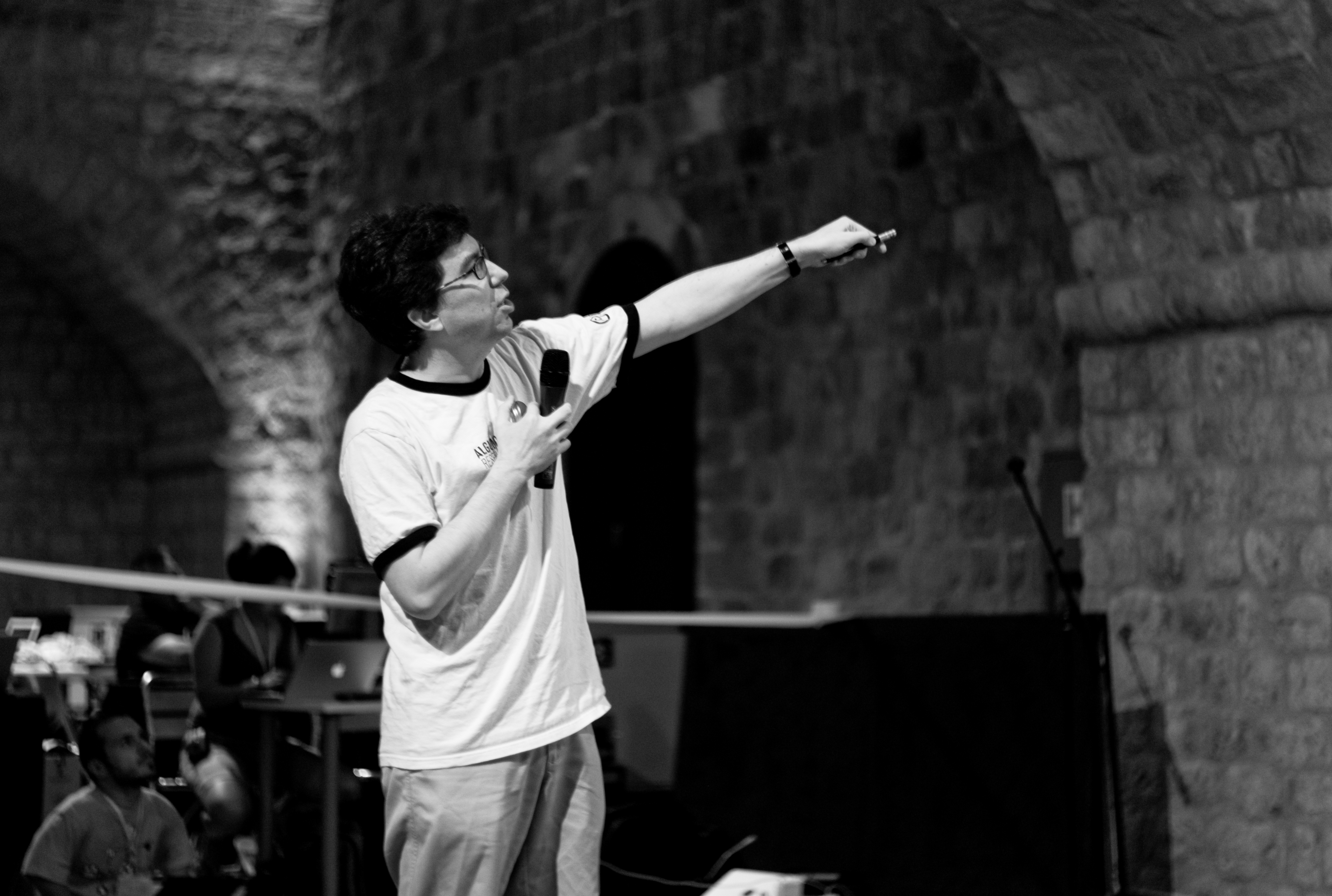 Jonathan Zittrain speaking in 2007